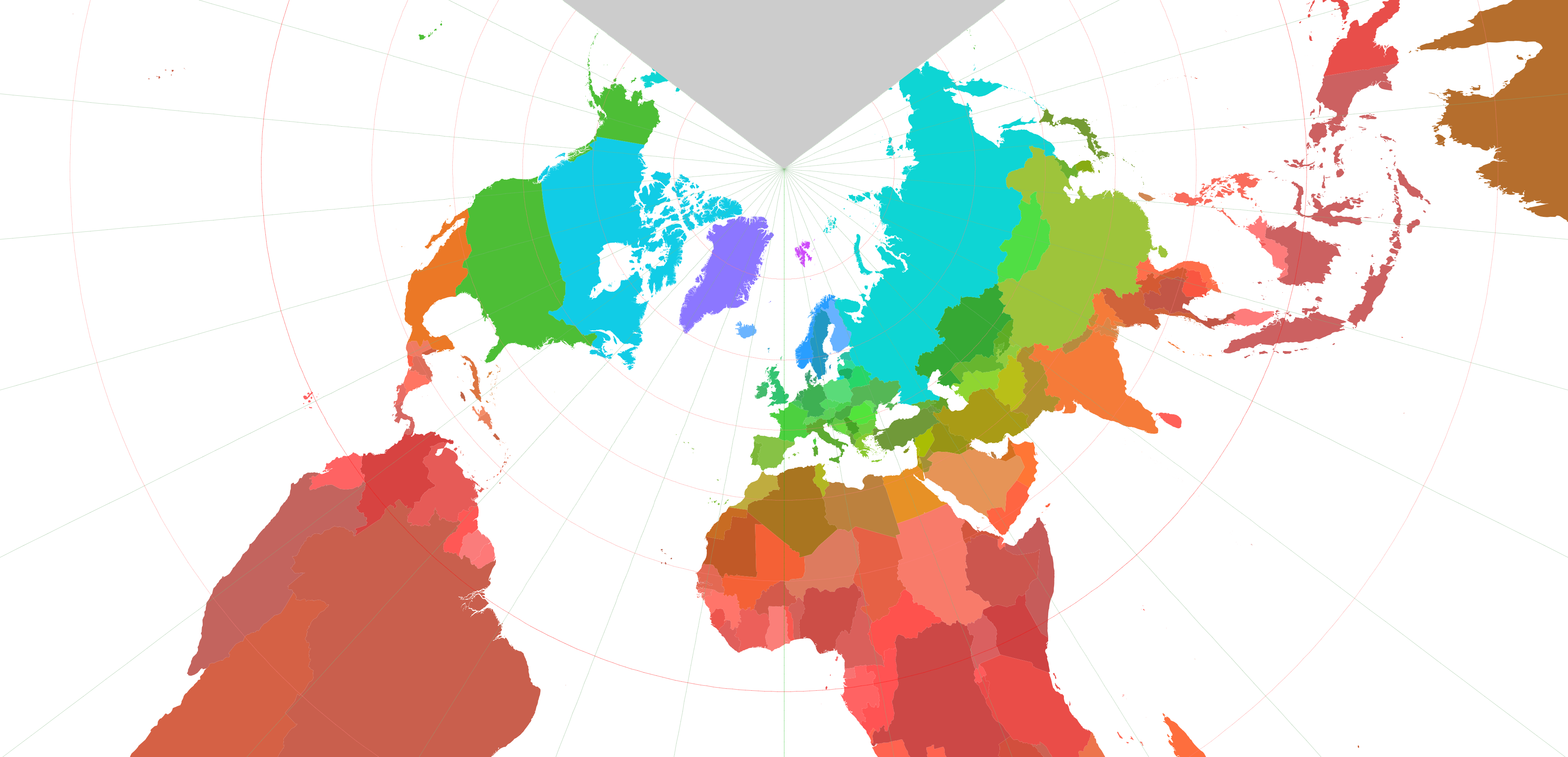 Political map of the northern hemisphere in conical projection with a distance-true parallel at 45 degrees north, with colours that vary with latitude.